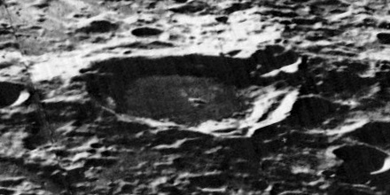 Oblique view of Rumford, on the far side of the moon, facing west.